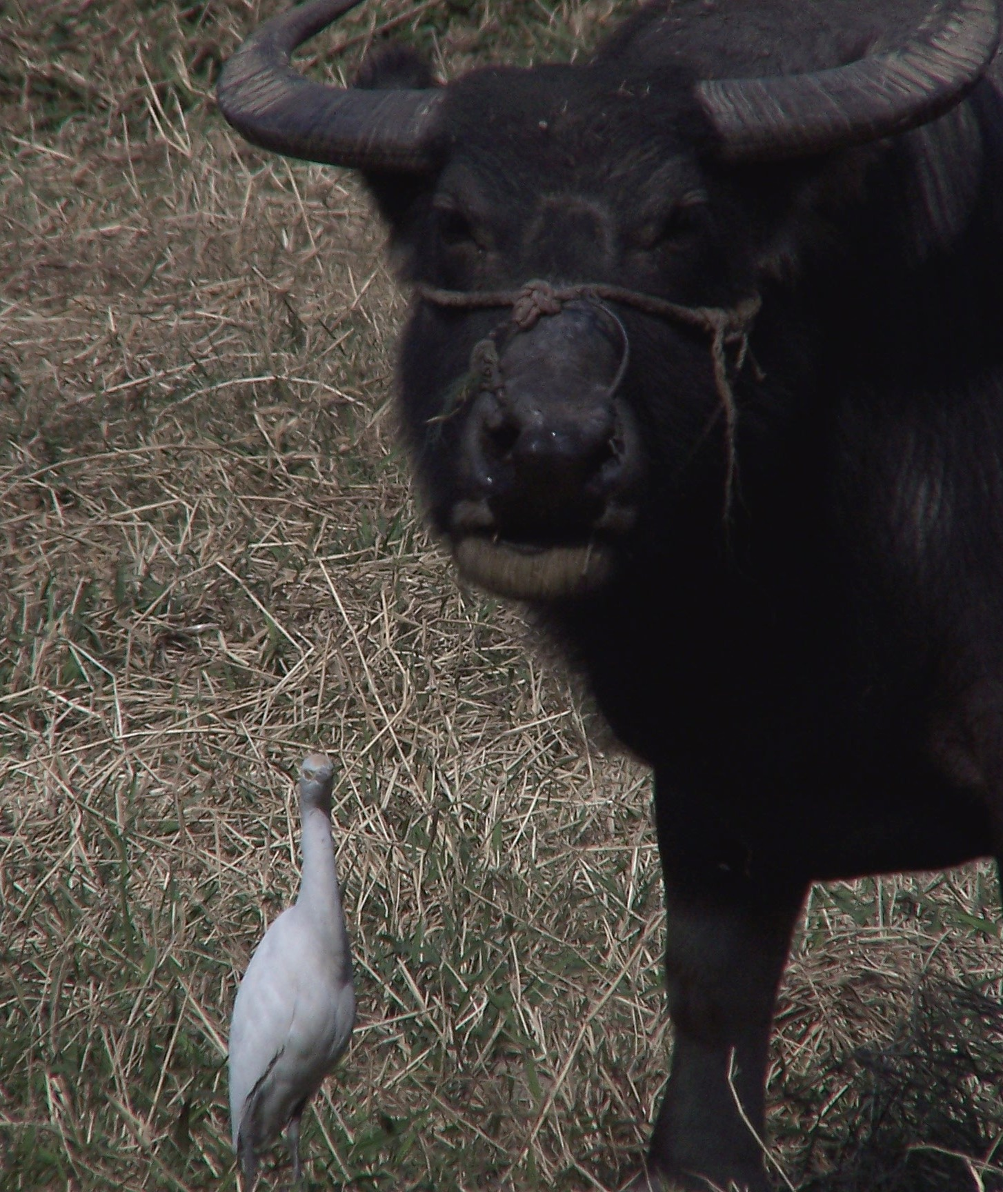 Eastern Cattle Egret Bubulcus coromandus with Water Buffalo Bubalus bubalis, Hong Kong